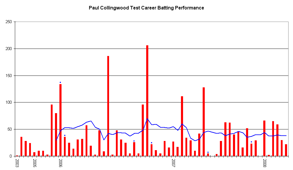 This graph details the Test Match performance of Paul Collingwood. It was created by Raven4x4x. The red bars indicate the player's test match innings, while the blue line shows the average of the ten most recent innings at that point. Note that this average cannot be calculated for the first nine innings. The blue dots indicate innings in which Collingwood finished not-out. This graph was generated with Microsoft Excel 2002, using data from Cricinfo [1] and Howstat [2]. The information in this graph is current as of 30 March 2008.